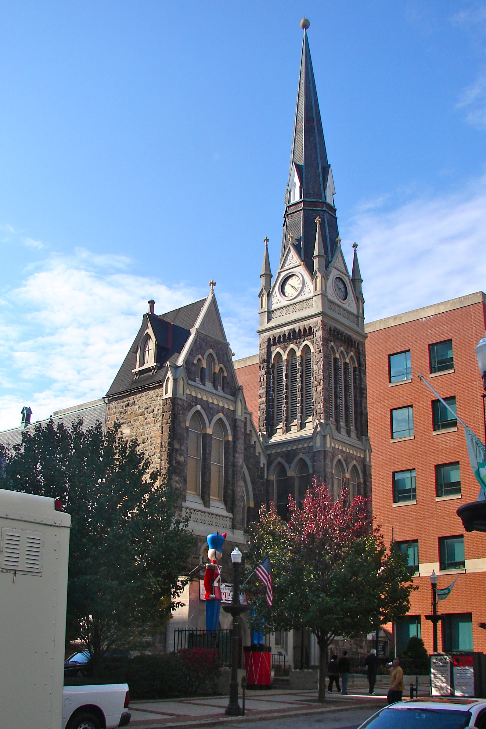 High German Evangelical Reformed Church (aka Zion United Methodist Church) on the NRHP since July 28, 1983. At 620 Hamilton Street, Allentown, Pennsylvania. Housed the Liberty Bell in 1777, which was being hidden from the British who were expected to melt it down for cannon. Current building incorporates 2 18th century buildings and doubled in size around 1888. Thus the Gothic Revival entrance has little to do with the Liberty Bell